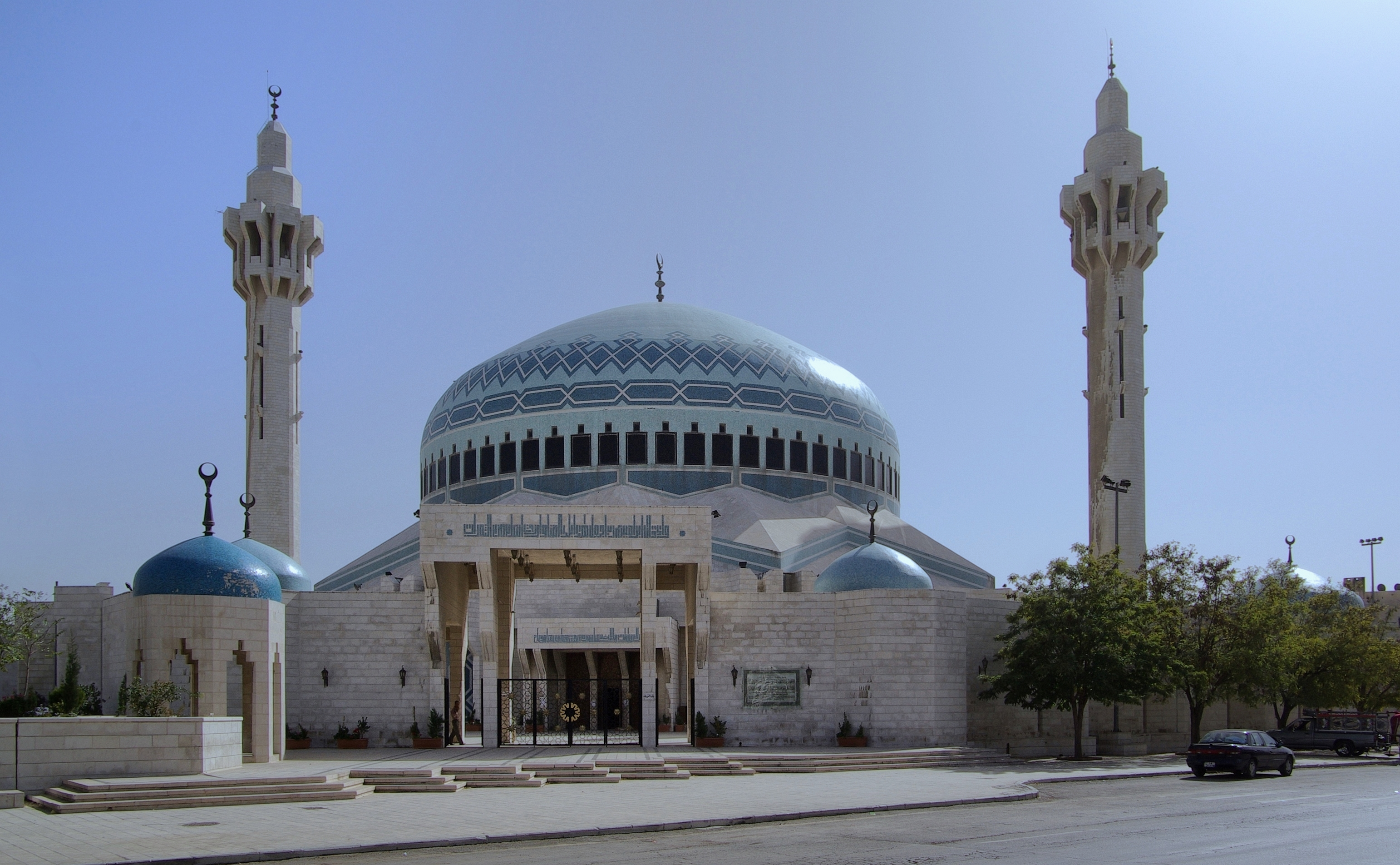 Jordan, Amman, King Abdullah Mosque